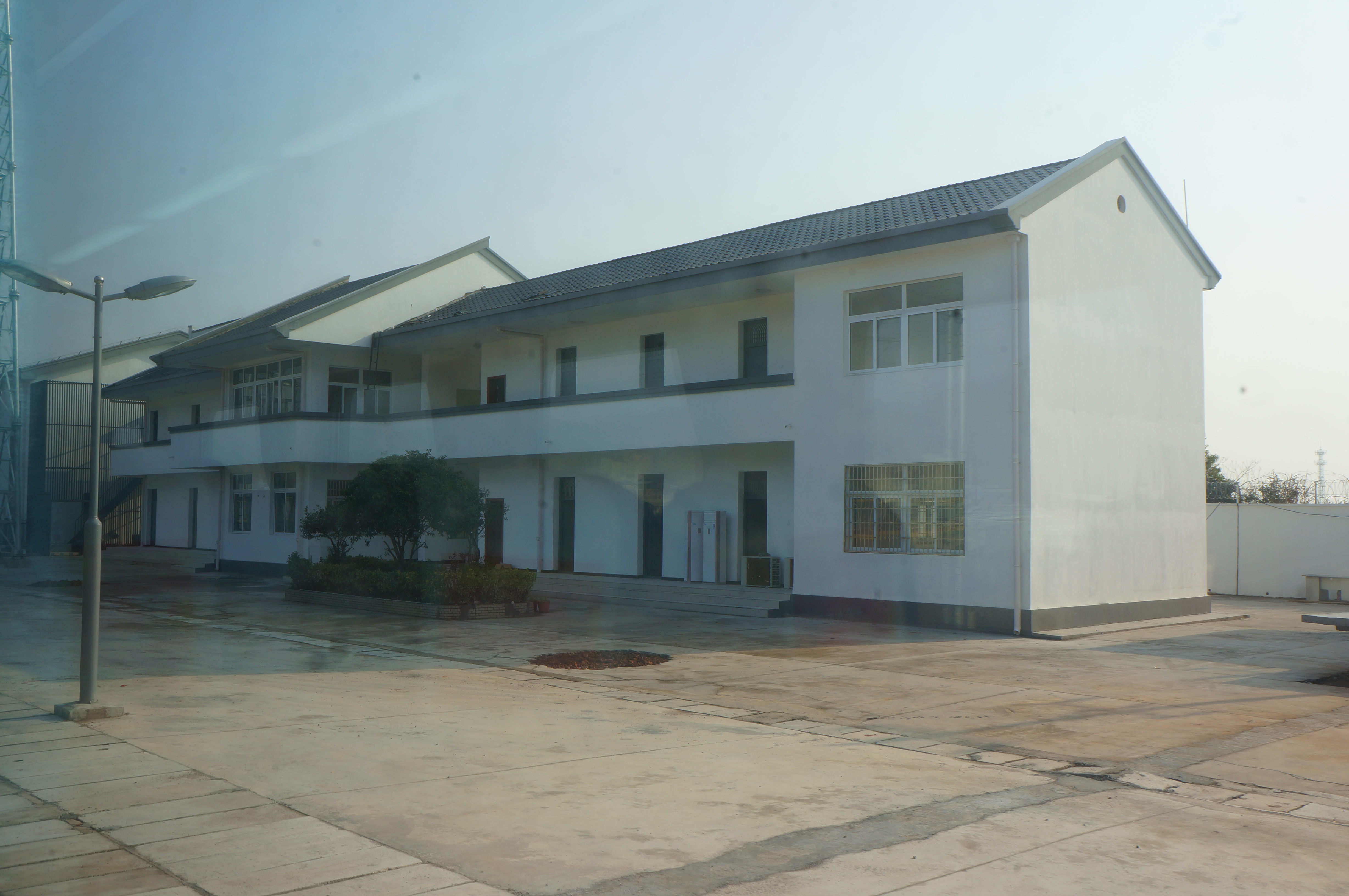 201712 Station building of Huibu Station. Taken on the K8372 which is having stopover for commuter passengers it seems to be re-decorated